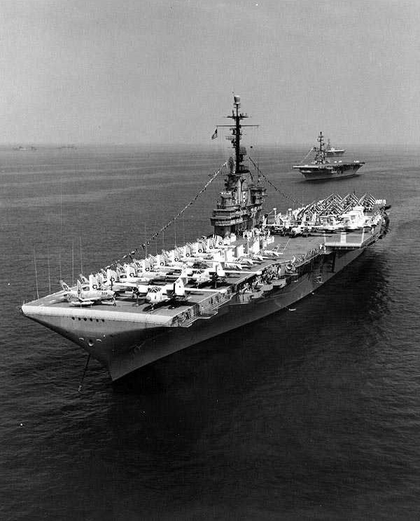 The U.S. Navy aircraft carrier USS Randolph (CVA-15) at her assigned anchorage in Hampton Roads, Virginia (USA), during the International Naval Review, on 12 June 1957. The aircraft carriers USS Valley Forge (CVS-45) and USS Leyte (CVS-32) are visible in the background.